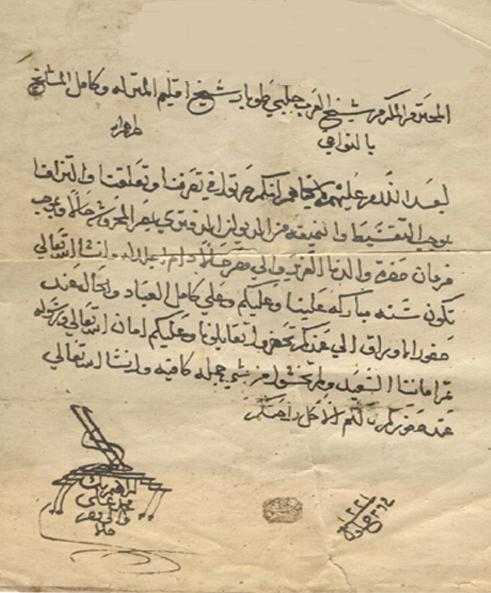 وثيقه نادرة من ابراهيم بك ابن محمد علي باشا والى مصر إلي شلبي طوبار ابن المجاهد حسن طوبار